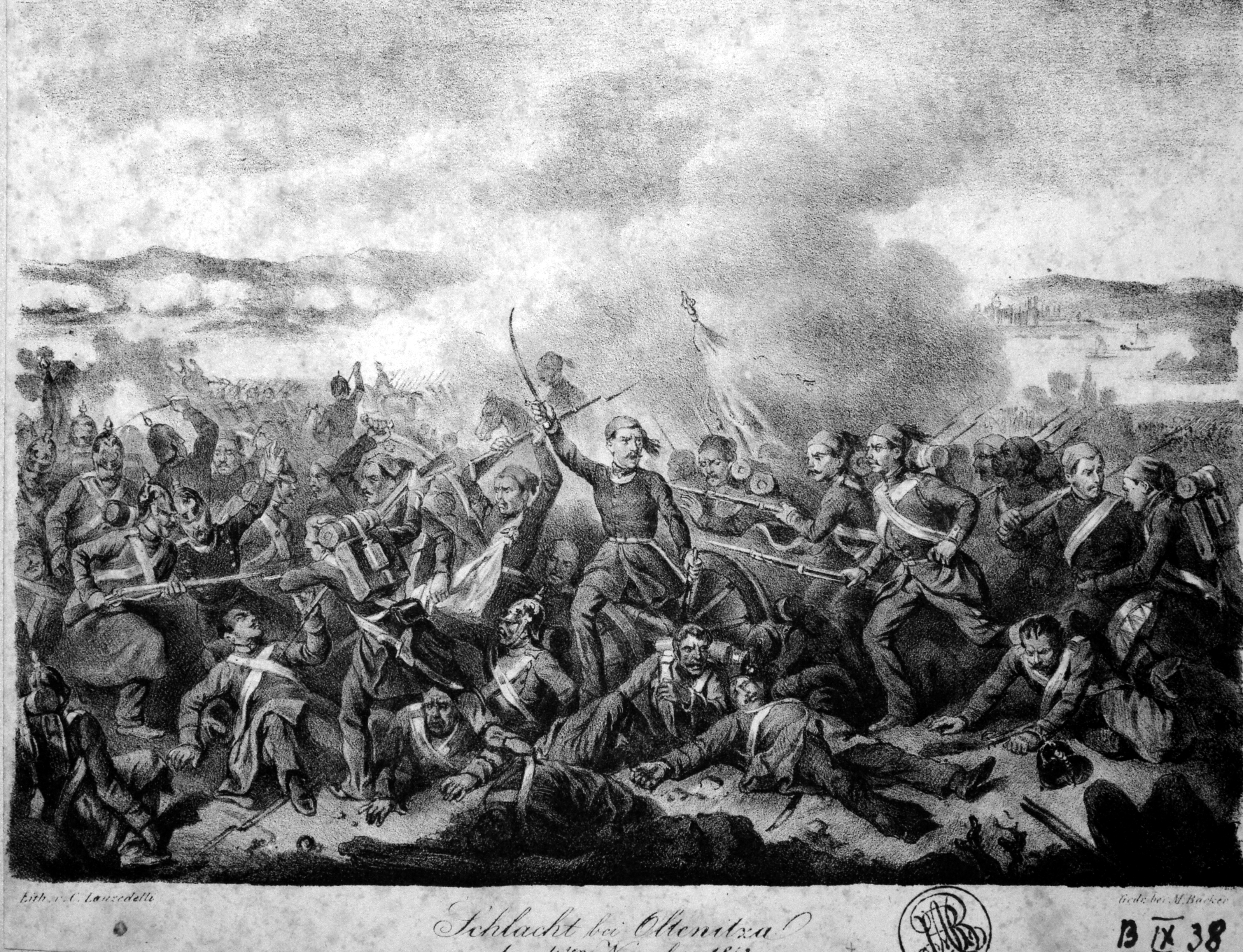 Battle of Oltenița fought between Ottoman Empire and Russian Empire at Oltenița, Wallachia (now Romania) on 4 November 1853. It was the first engagement of the Crimean War.